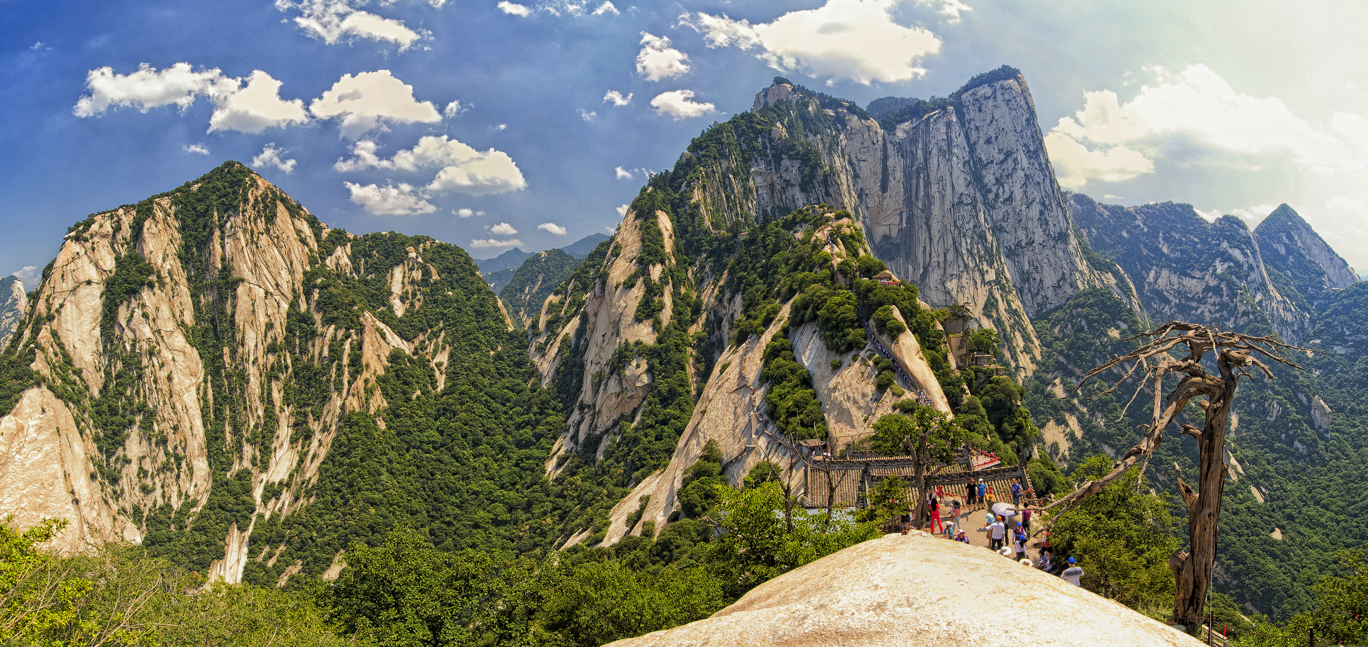 Hua Shan China panorama 2011